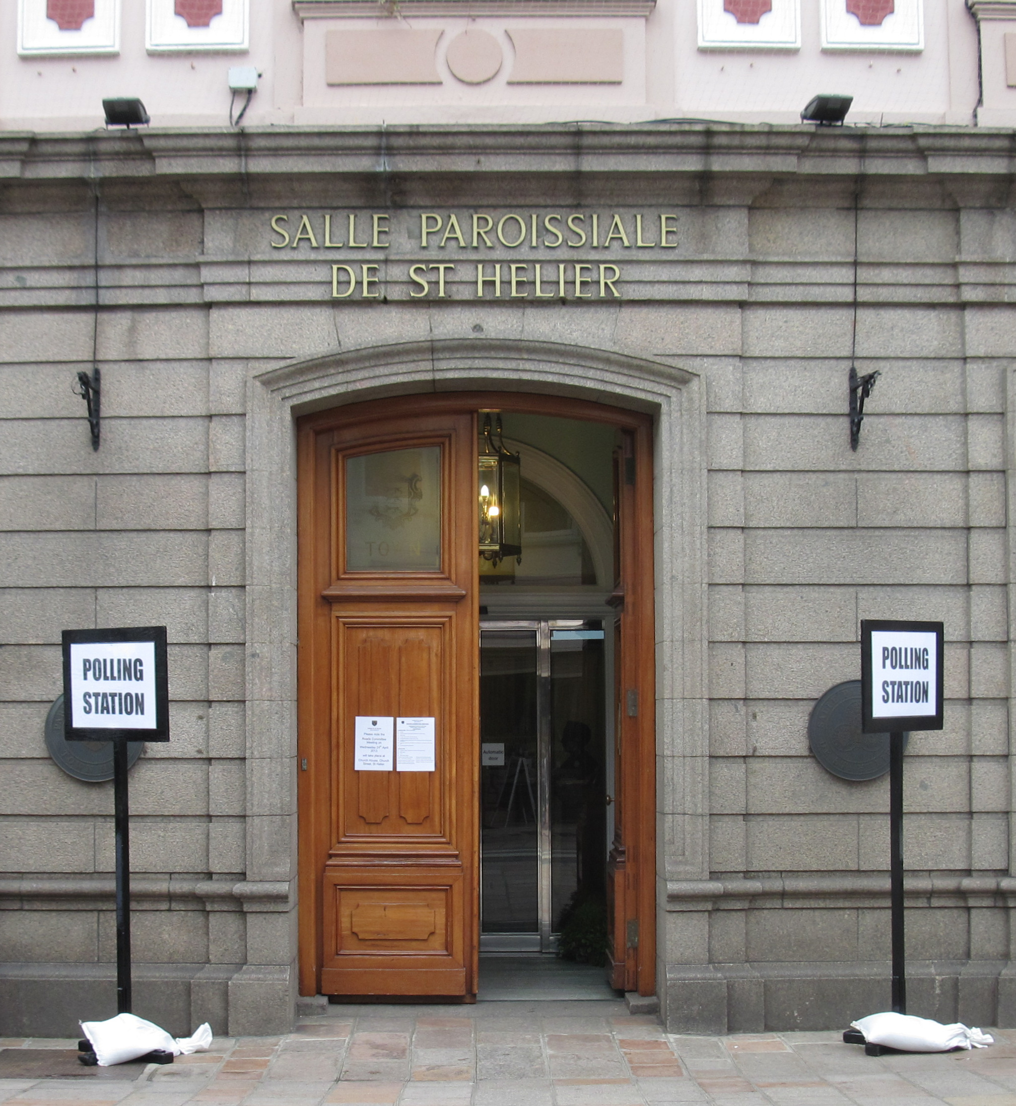 Referendum, Jersey, 24 April 2013